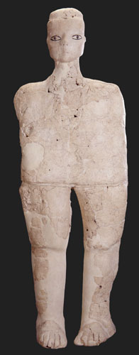 'Ain Ghazal